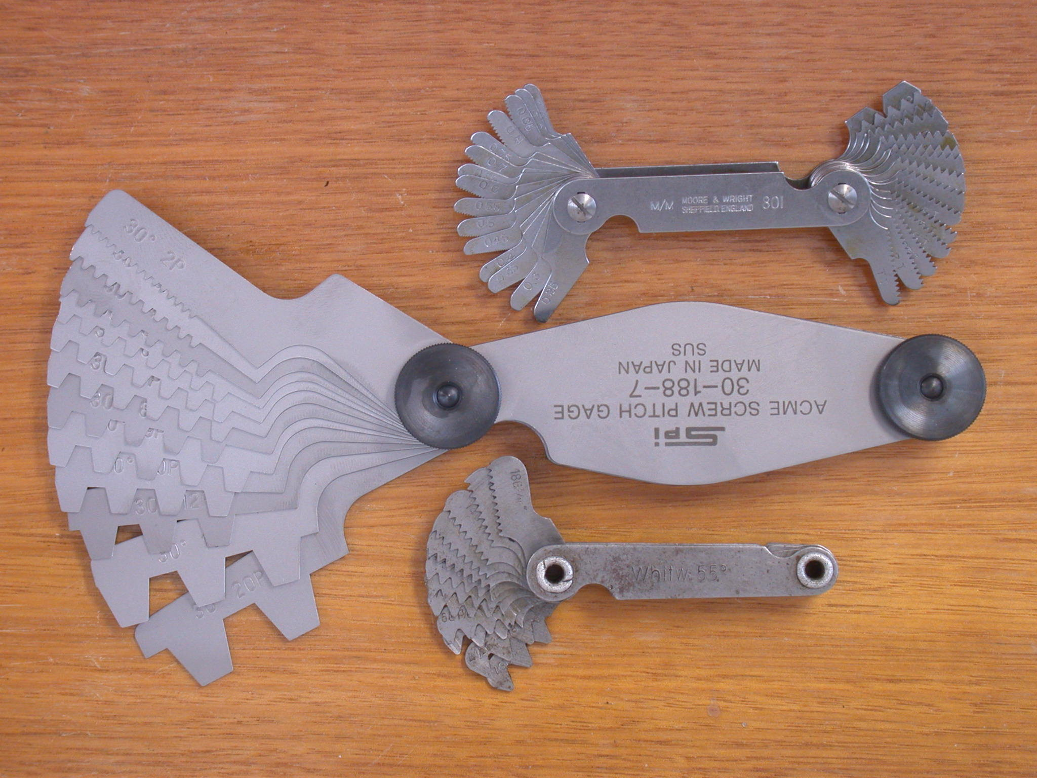 Photograph taken by Glenn McKechnie on the 24th March 2005.